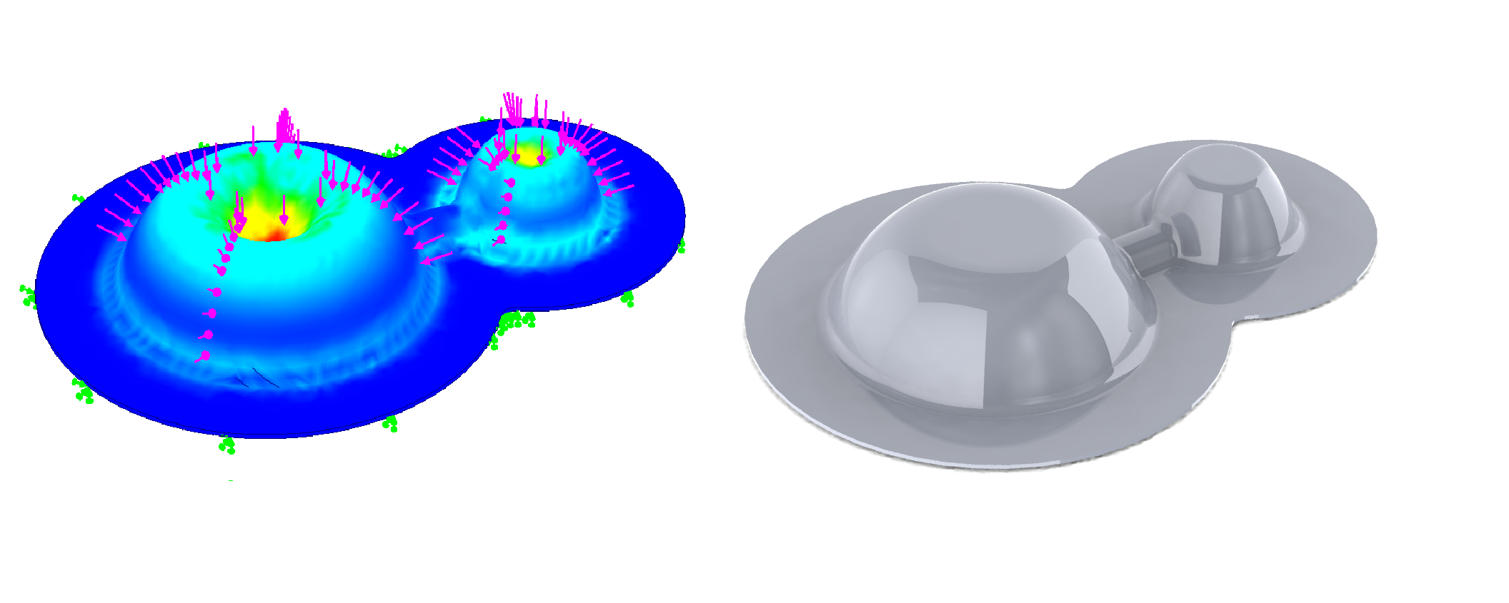 CAD Render of a Soft Open Blister Desgin